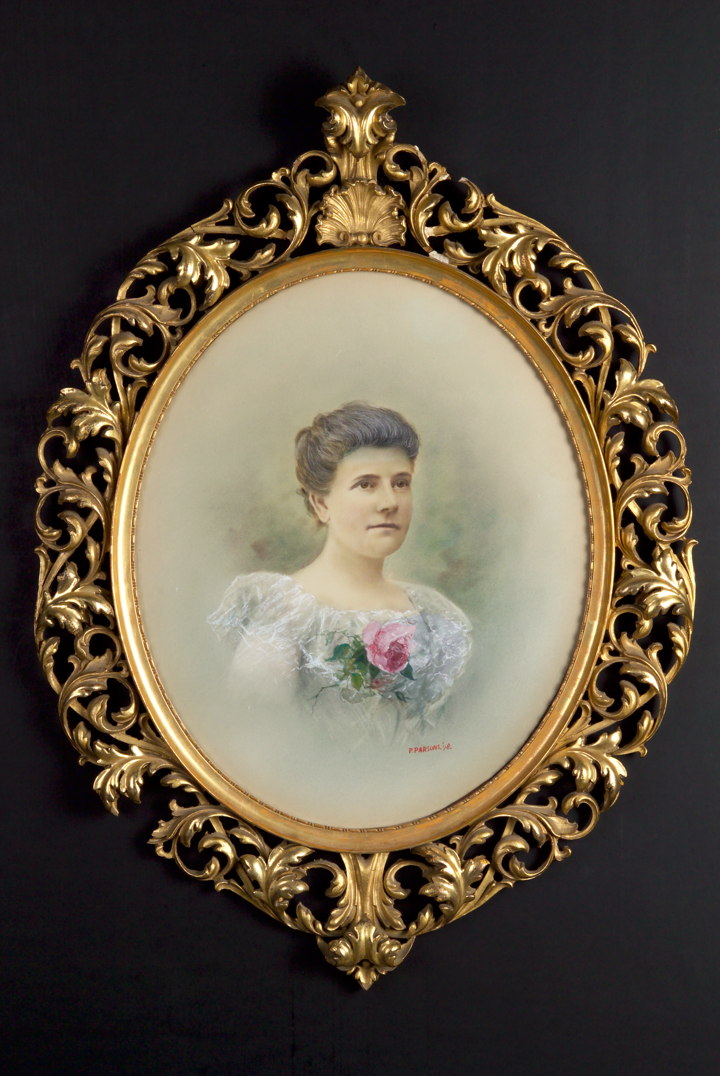 Hand-colored photograph of Emily Sibley Watson, by P. Parsons, ca. 1878. Memorial Art Gallery of the University of Rochester, Gift of Dr. and Mrs. Michael L. Watson, 2005.20